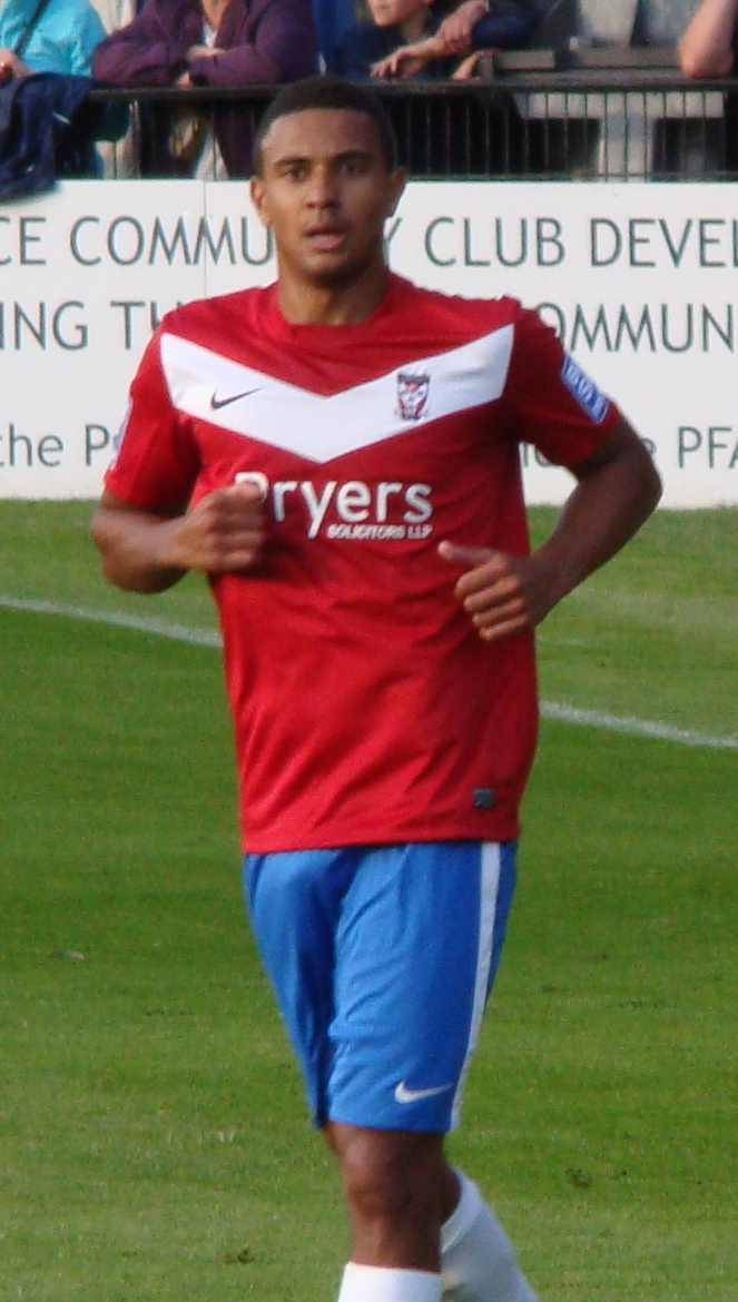 James Meredith playing for York City against Sunderland at Bootham Crescent, York on 13 July 2011